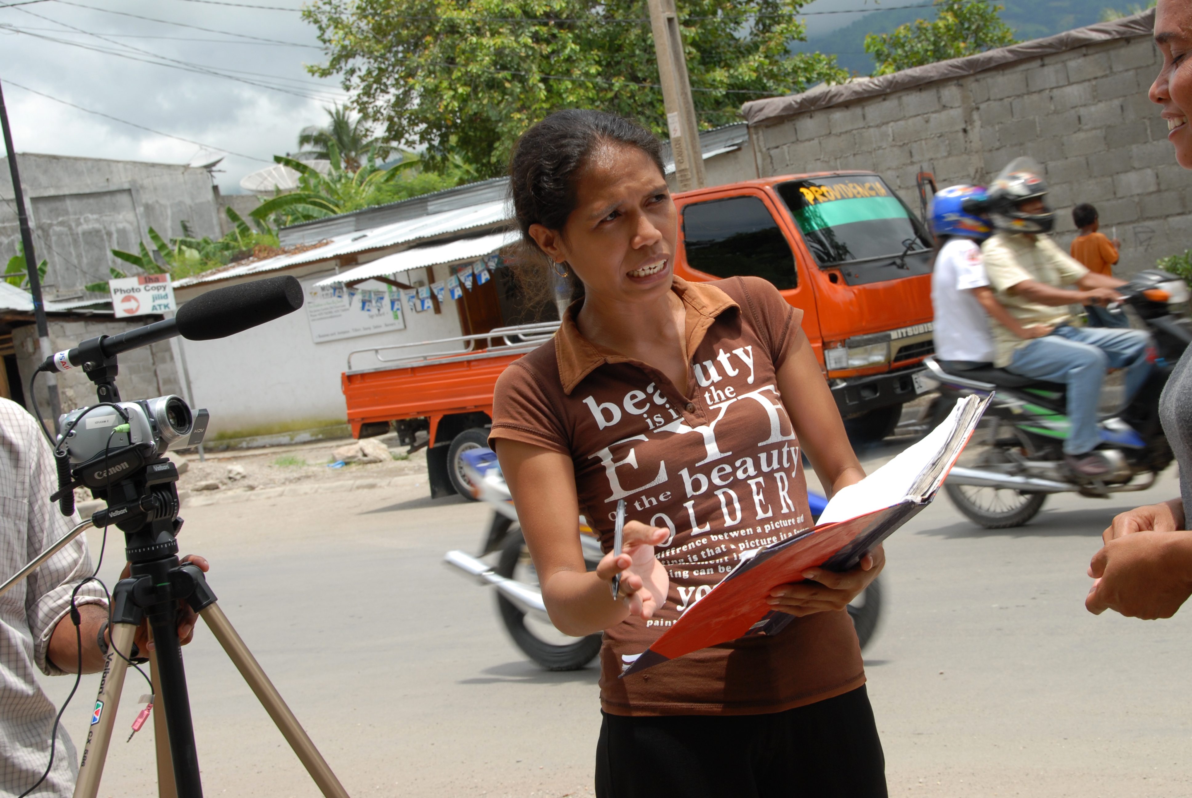 Australia supports the process of democratisation in East Timor through the Strengthening Independent Media Program. Photo by J.vas to request a high resolution original.